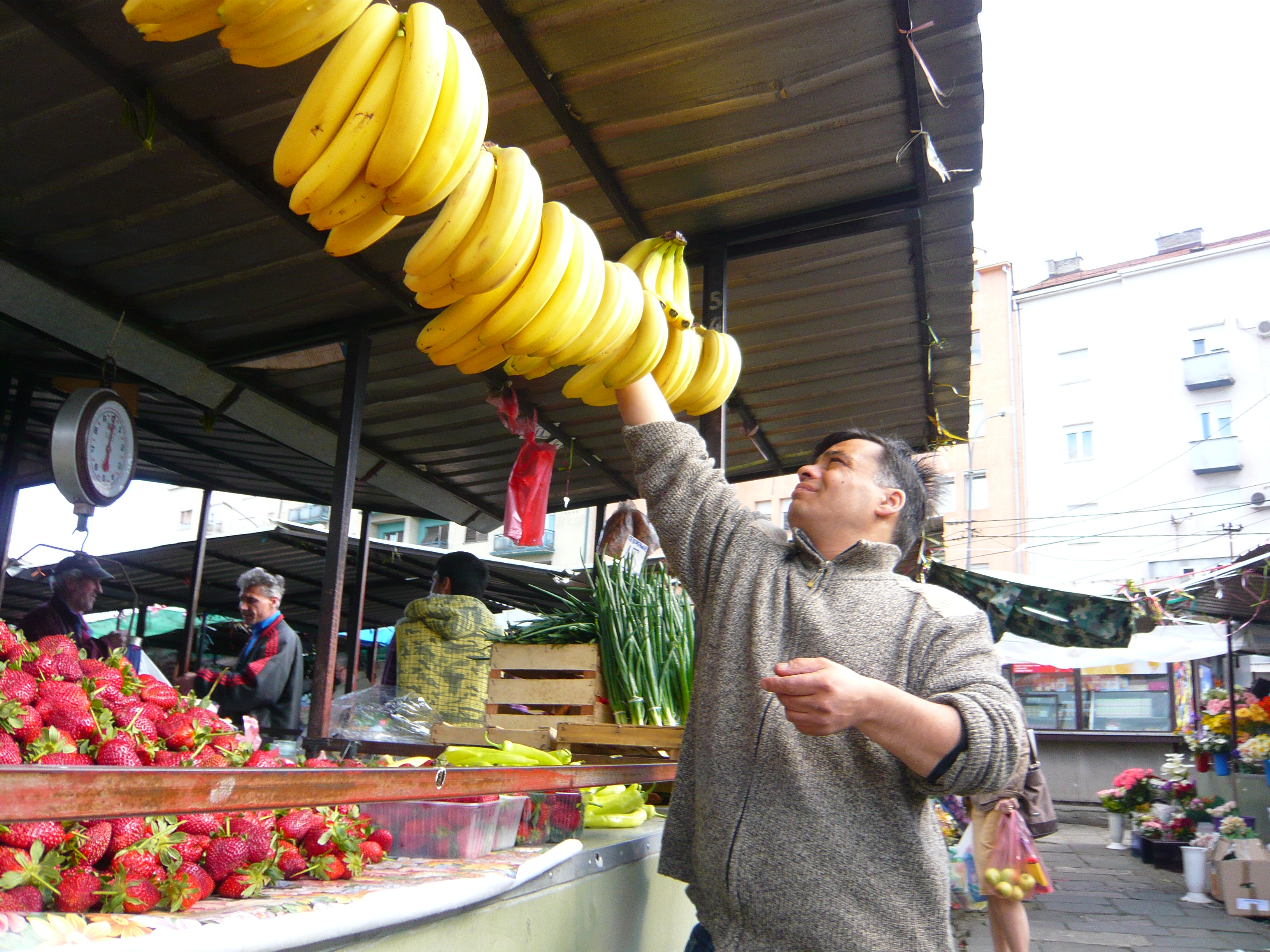 An ordinary day at the Kalenić market in Belgrade